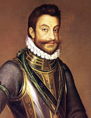 A portrait of Emmanuel Philibert of Savoy (1528-1580), at the El Escorial palace